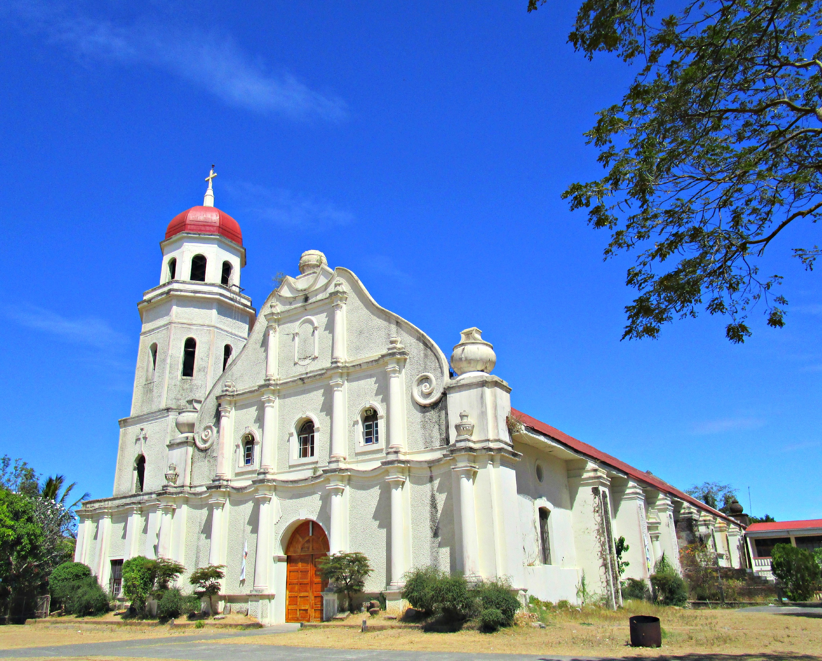 Santa Catalina de Alejandria Parish Church in Tayum, Abra. c.1803